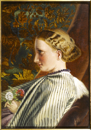 PAULINE, LADY TREVELYAN (1816-1866)by William Bell Scott- (1811-1890),hanging in Lady Trevelyan's Parlour at Wallington, Northumberland